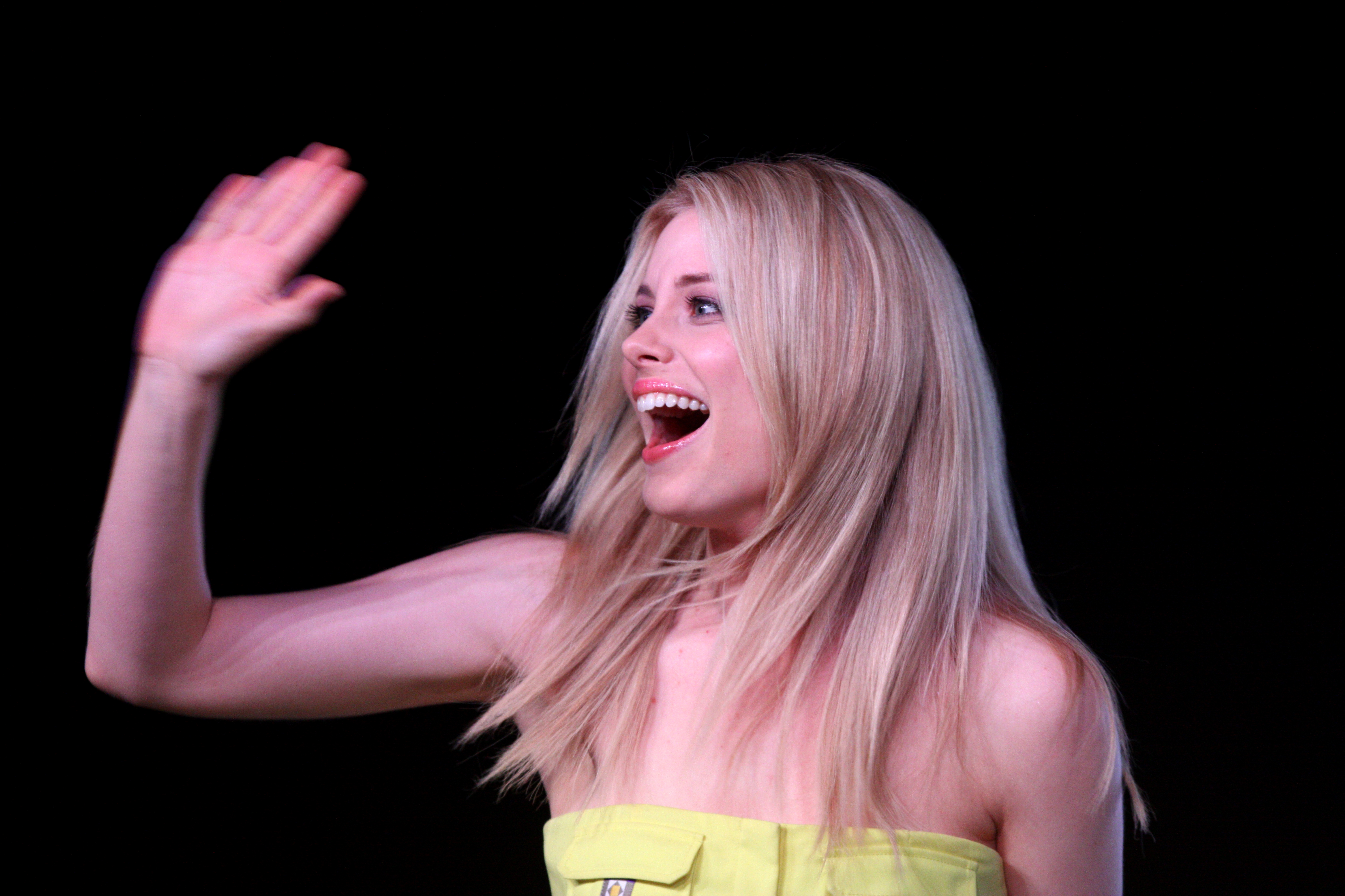 Gillian Jacobs speaking at the 2012 San Diego Comic-Con International in San Diego, California.